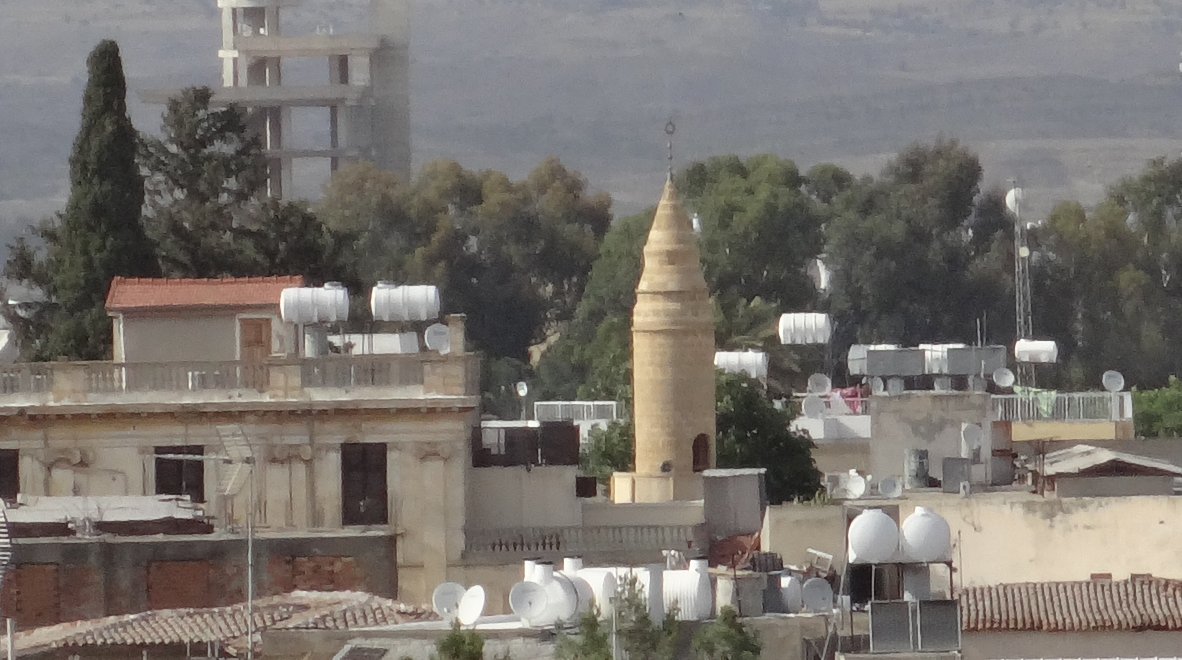 The minaret of Iplik Pazar mosque, with its distinctive stone top, rising above the Iplik Pazar and Korkut Effendi Neighbourhood. Southerly aspect